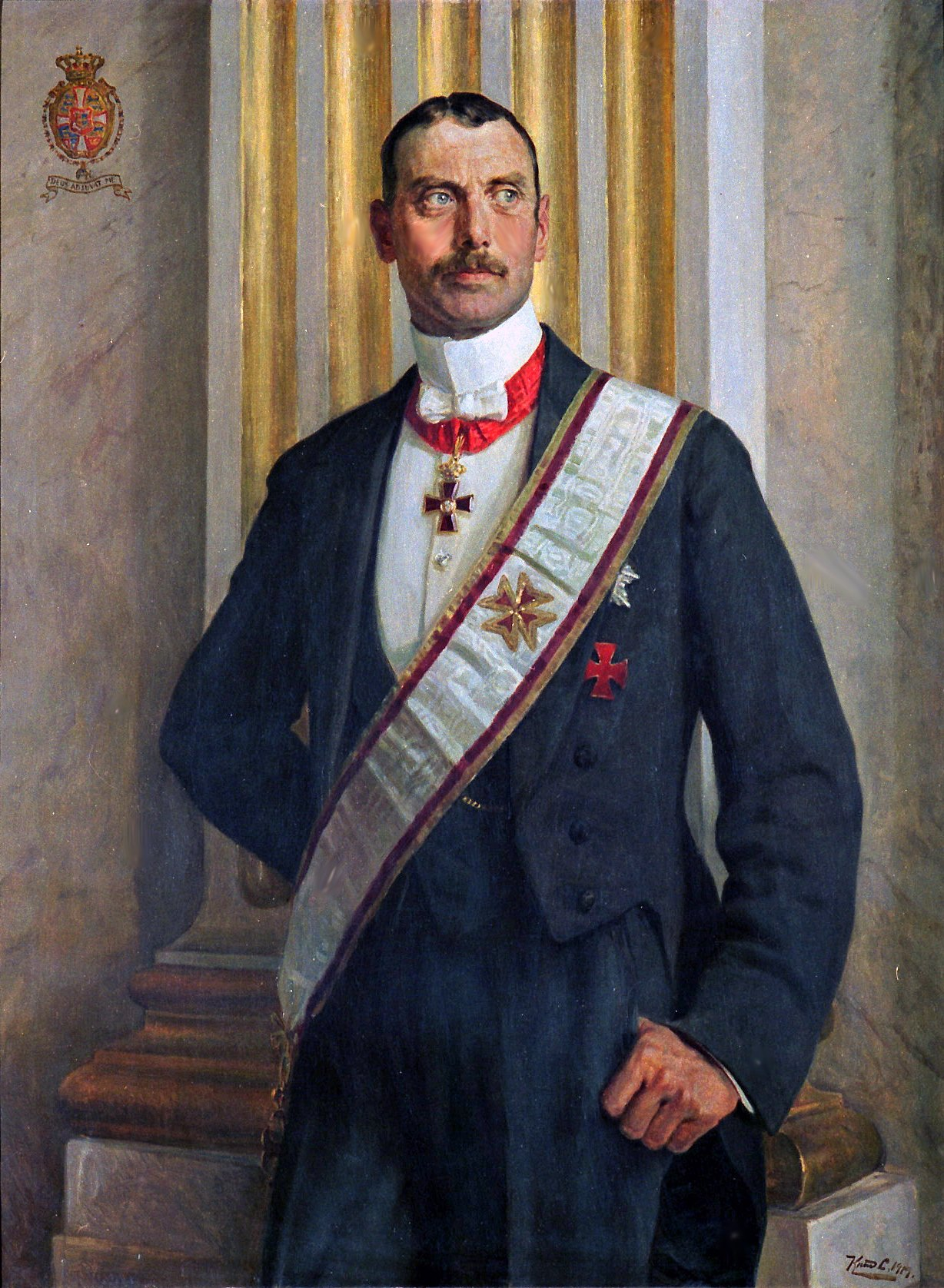 Depicted person: Christian X of Denmark[1] in his Freemasonic costume.